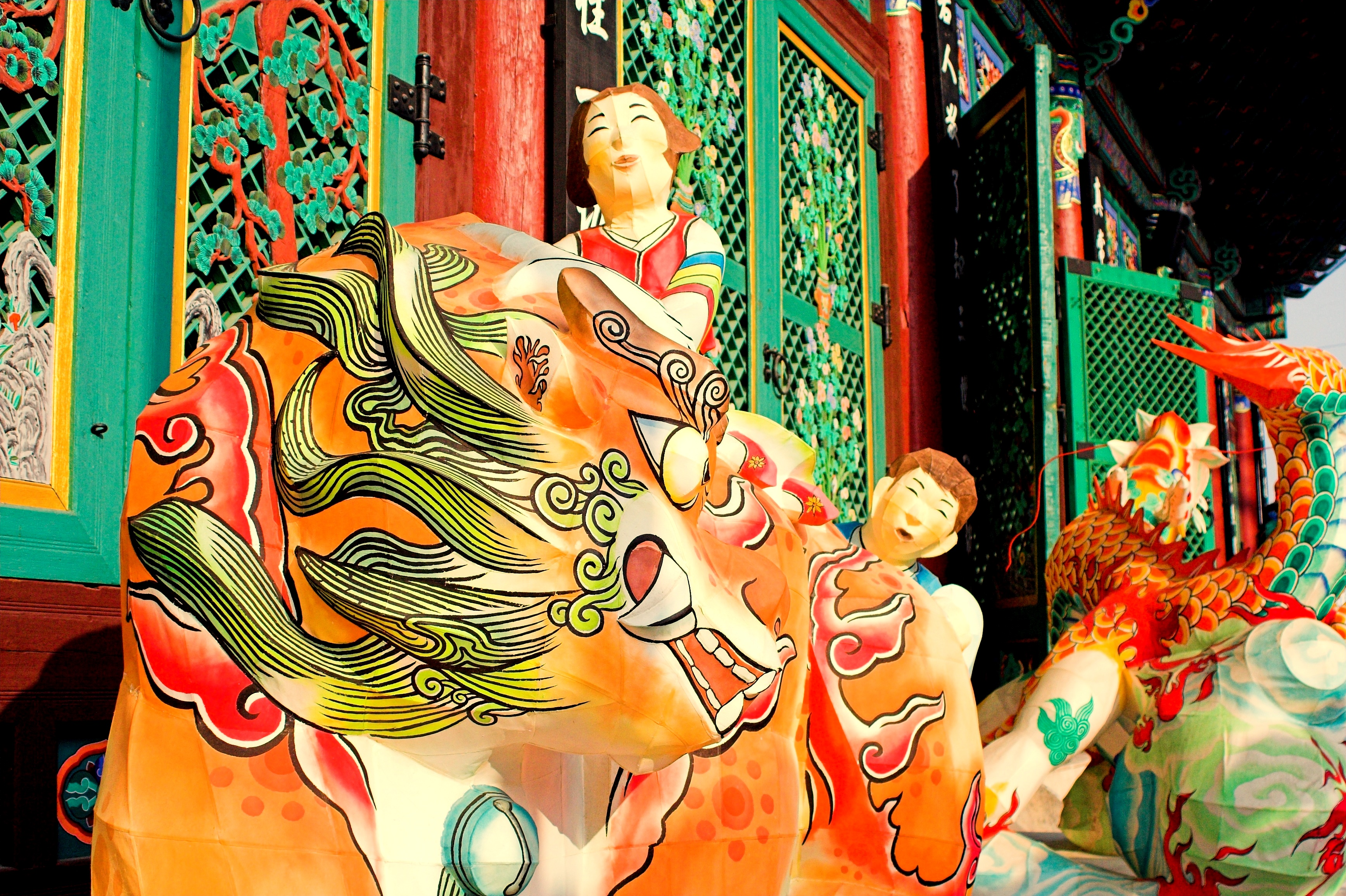 Lion Zodiac in Jogye-sa, Seoul, Korea